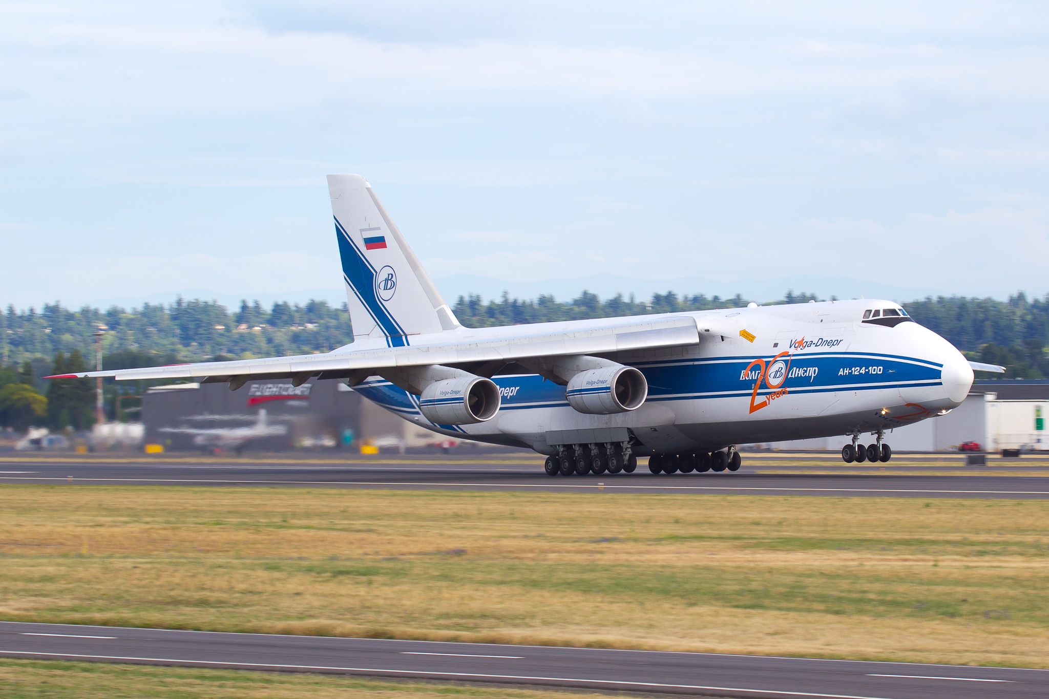 A Volga-Dnepr AN-124-100 rotates on runway 28R, departing Portland, Oregon USA to Winnipeg, Canada, after being loaded with two Columbia Helicopters CH-46s